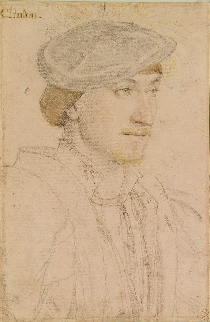 Portrait of Edward, Lord Clinton. Black and coloured chalks, silverpoint, pen and Indian ink on pink-primed paper, 22.3 × 14.7 cm, Royal Collection, Windsor Castle. The drawing has been retouched by other hands around the ear, neck, and hair. Edward Clinton (or Fiennes), 9th Lord Clinton (1512–1584/85), followed a long military career. He attended Henry VIII at Boulogne and Calais in 1532, and was later Captain of Boulogne, Lord High Admiral, and Constable of the Tower. He was created Earl of Lincoln in 1572.